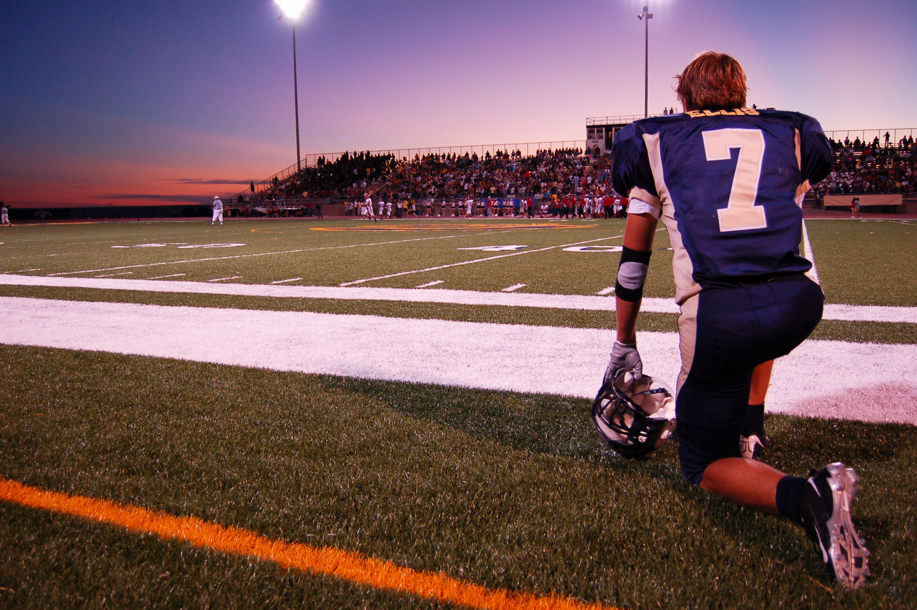 A Highschool American Football game